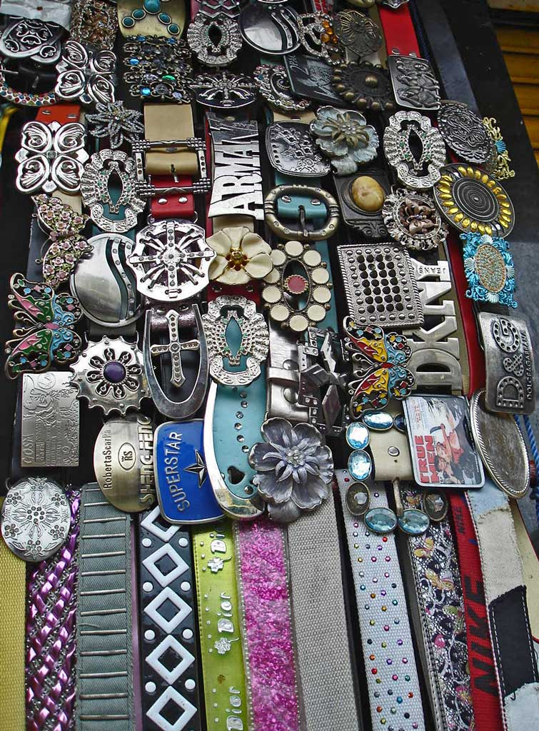 A shop selling a wide variety of belts with plate-style buckles and other decorative fixtures along Linking road Bandra, Mumbai